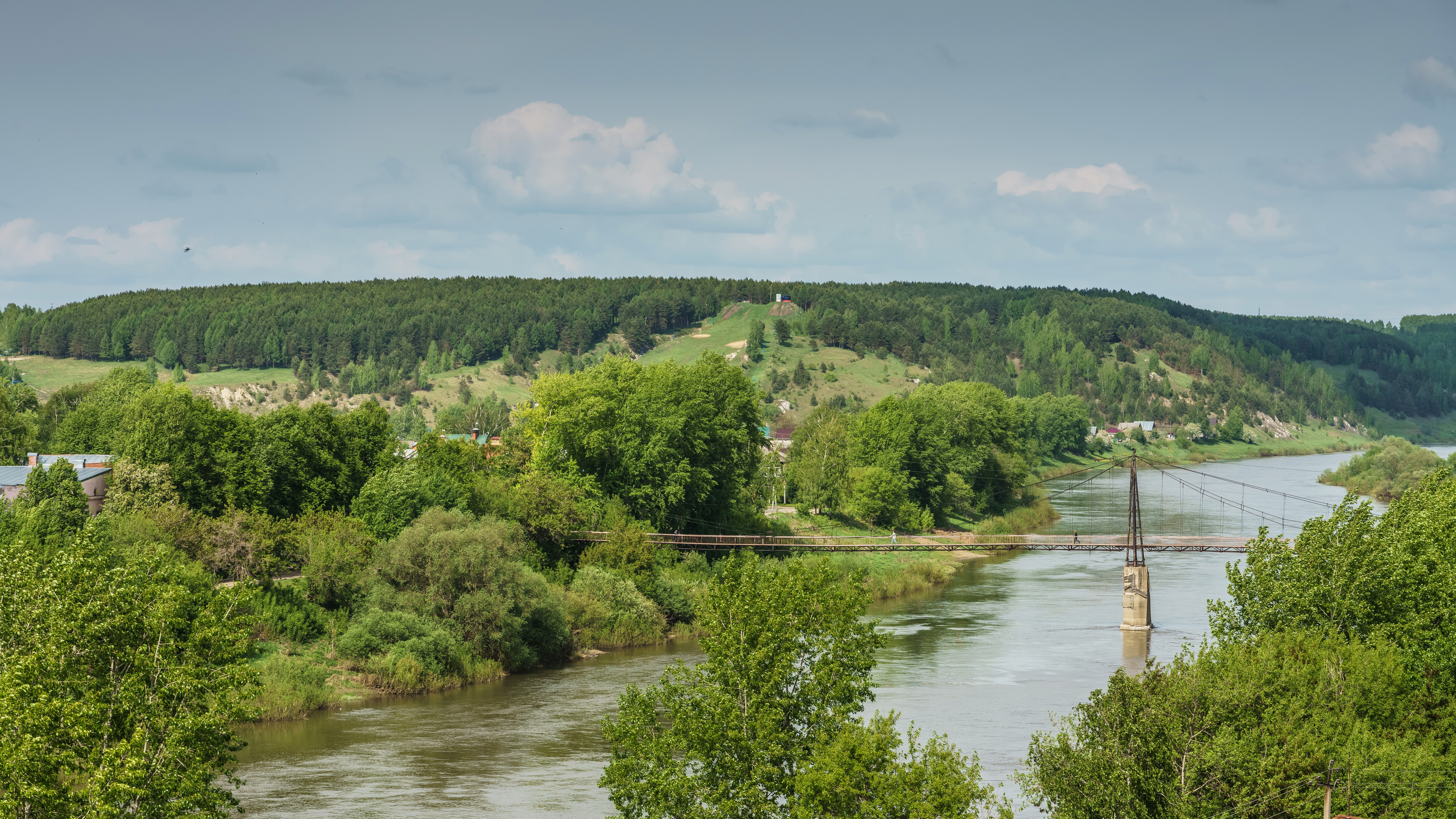 View of Sylva River and a footbridge in Kungur, Perm Krai, Russia